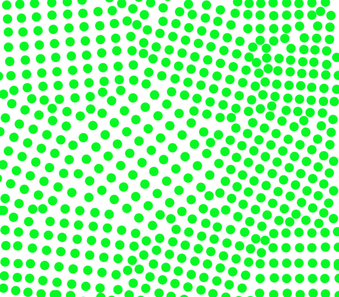 Schematic representation of polycrystalline material consisting of crystallites